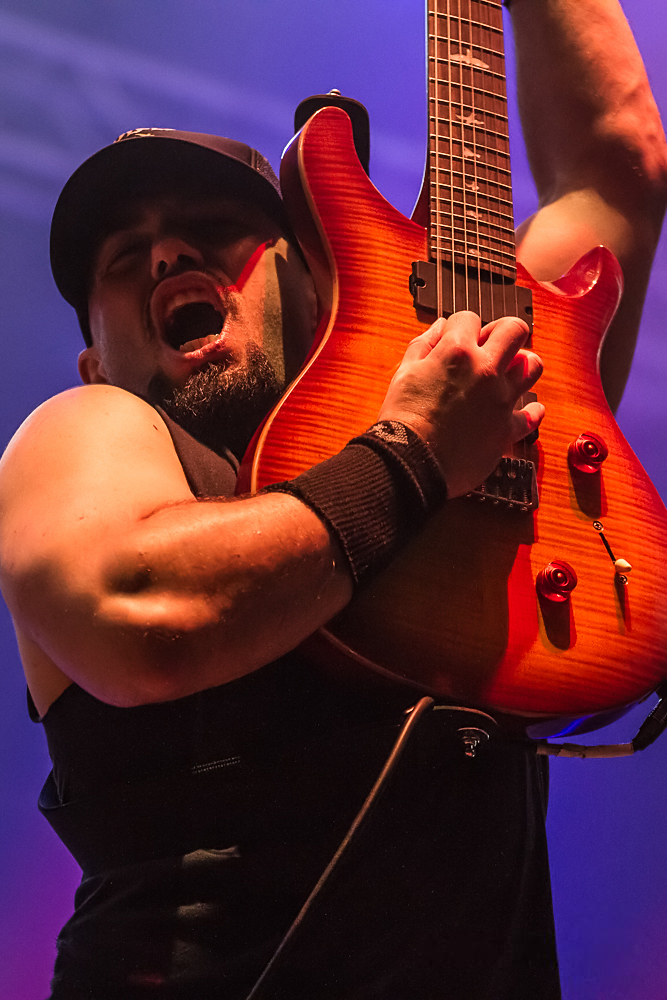 Soulfly - Rock Harz 2013 - 12-07-2013